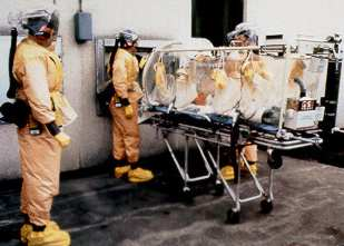 The following description is from the "Medical aspects of chemical and biological warfare" published in 1997 by Office of The Surgeon General, Department of the Army, United States of America Fig. 19-3. Members of the Aeromedical Isolation Team (AIT) prepare to transfer a patient from a stretcher isolator into the Biosafety Level 4 (BL-4) isolation suite at the U.S. Army Medical Research Institute of Infectious Diseases, Fort Detrick, Frederick, Maryland. The interior of the isolator is maintained at a pressure negative to the external environment by a high-efficiency particulate air (HEPA) filtered blower. The isolator can be attached directly to a transfer port, visible on the external wall of the building, to allow movement of the patient into the suite without exposing the environment to the patient. Team members are seen wearing protective suits and positive-pressure, HEPA-filtered Racal hoods (manufactured by Racal Health & Safety, Inc, Frederick, Md). Photograph: Public Affairs Office, Fort Detrick, Frederick, Md.